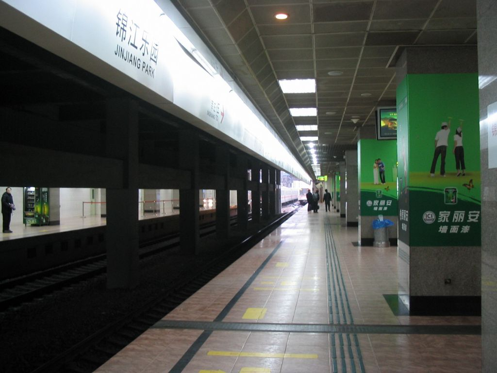 錦江樂園站-1號線月台 Line 1 Platform of Jinjiang Park Station